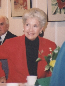 Iona Campagnolo attending a function at the Community Hall on her native Galiano Island.